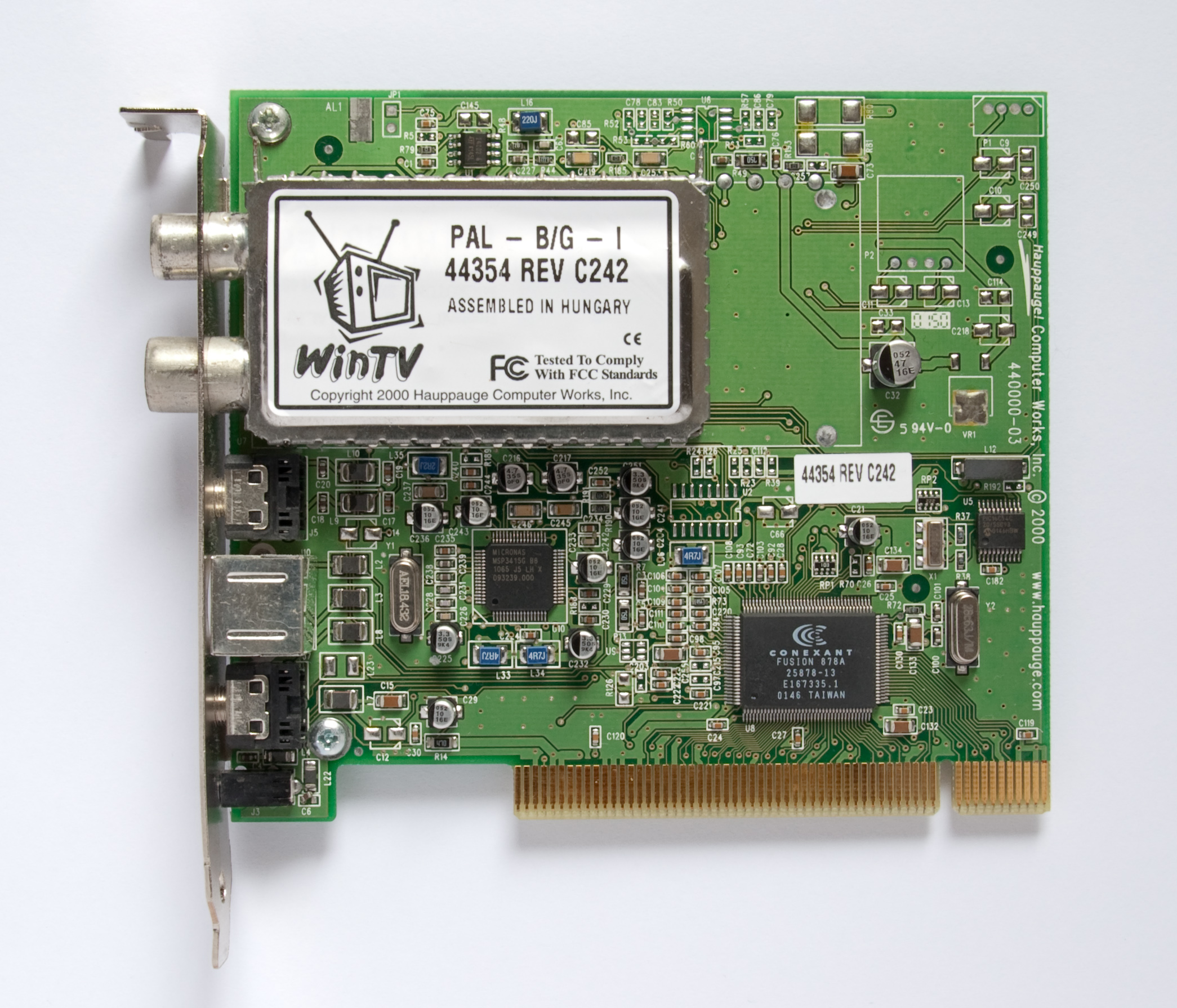 Hauppauge WinTV PCI-FM